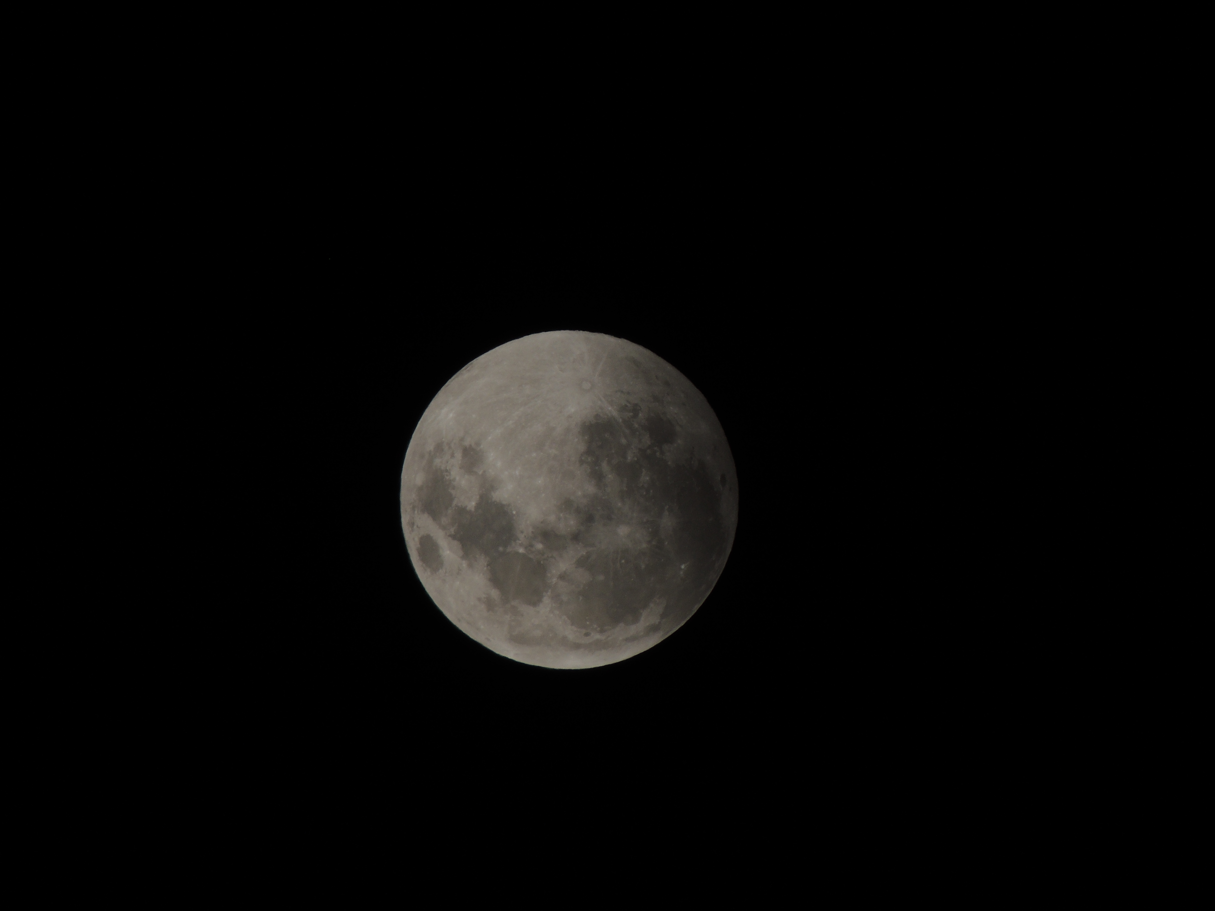 The lunar eclipse of the 21st of January 2019 as seen from M.B Gonnet, Buenos Aires, Argentina.